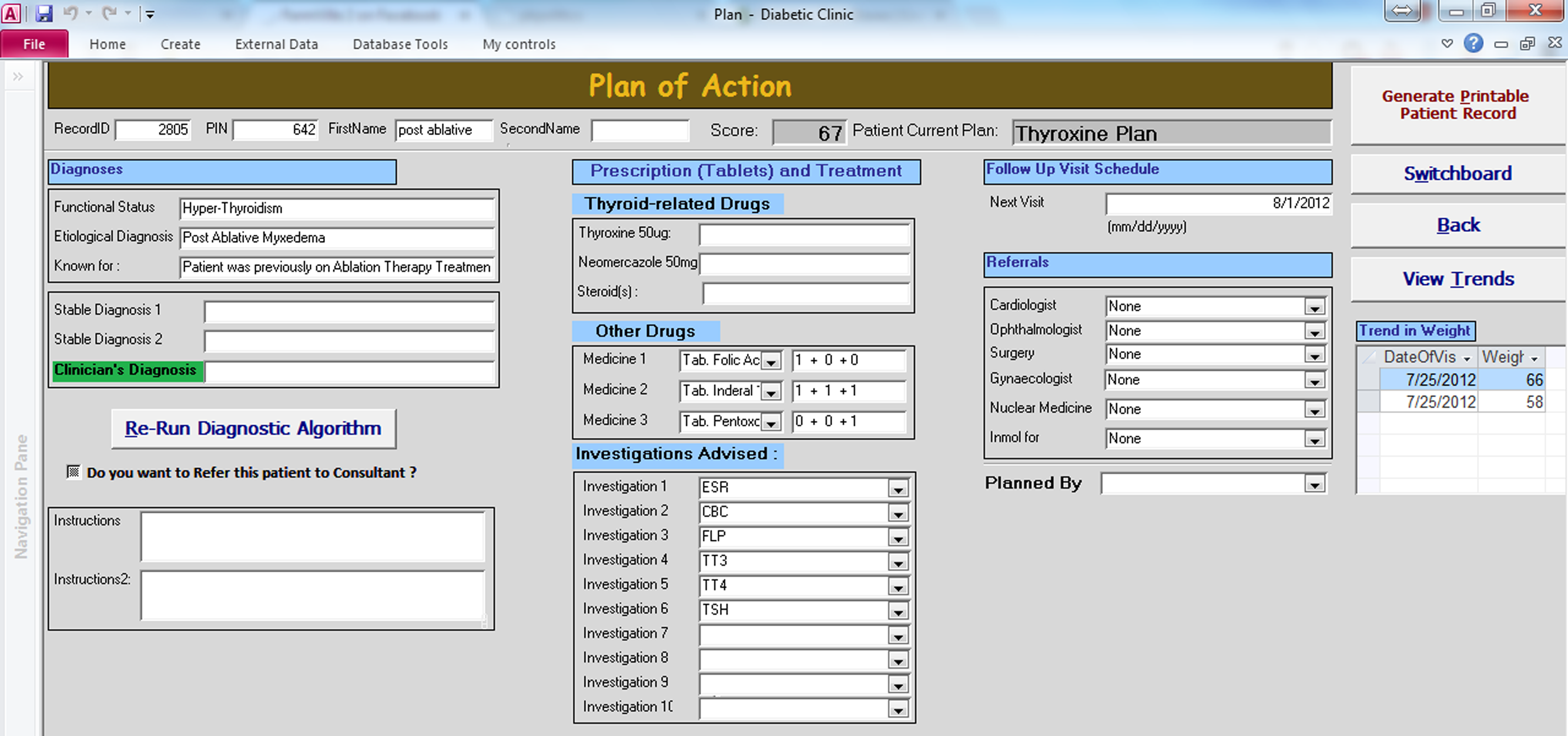 Planning the treatment for Thyroid patients at EU & DMC